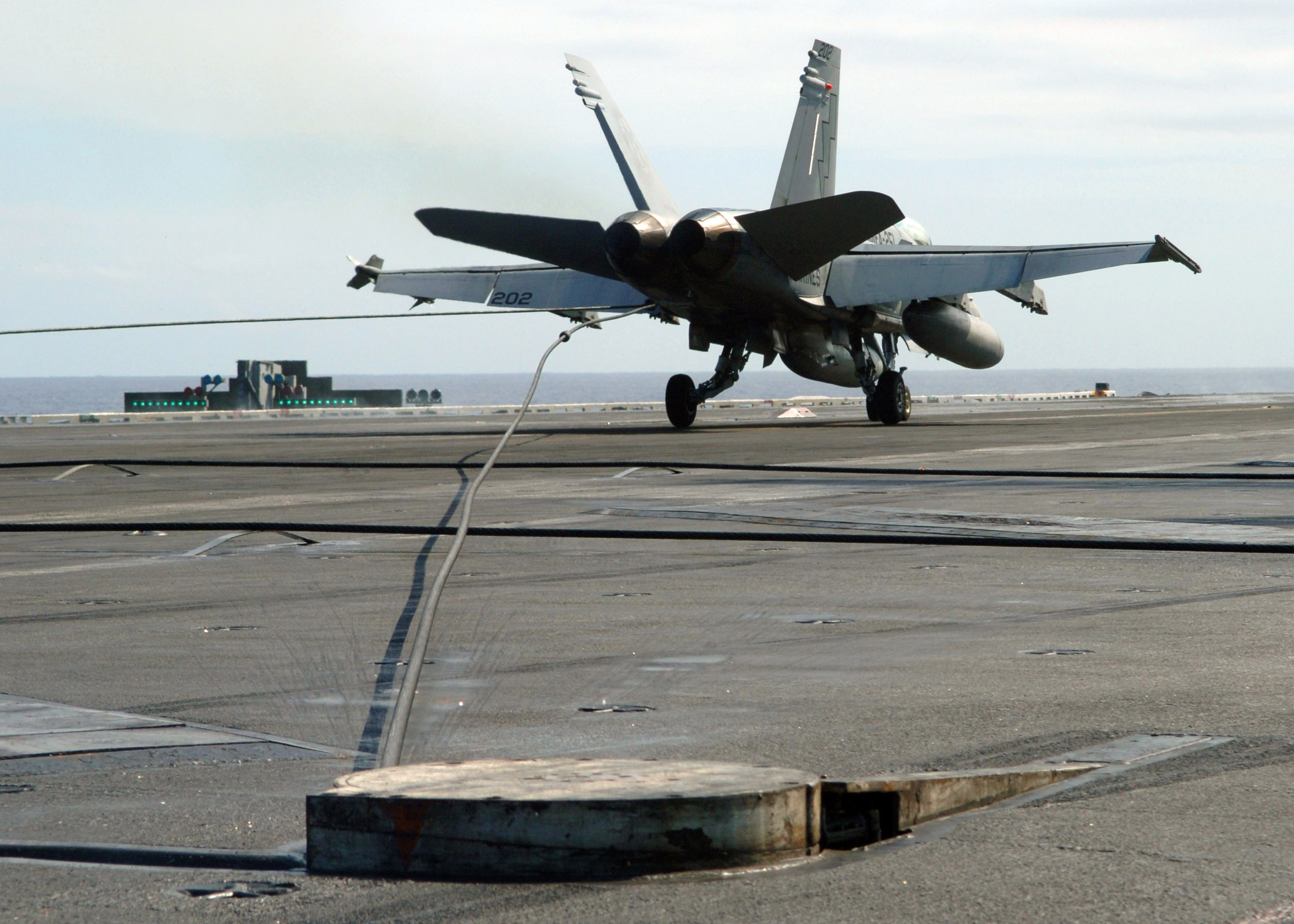 Atlantic Ocean (March 13, 2006) - An F/A-18C Hornet assigned to the "Thunderbolts" of Marine Fighter Attack Squadron Two Five One (VMFA-251) makes an arrested landing on the flight deck of the nuclear-powered aircraft carrier USS Enterprise (CVN 65). Enterprise and embarked Carrier Air Wing One (CVW-1) are currently underway conducting Composite Training Unit Exercise (COMPTUEX). U.S. Navy photo by Photographer's Mate 3rd Class Rob Gaston (RELEASED)